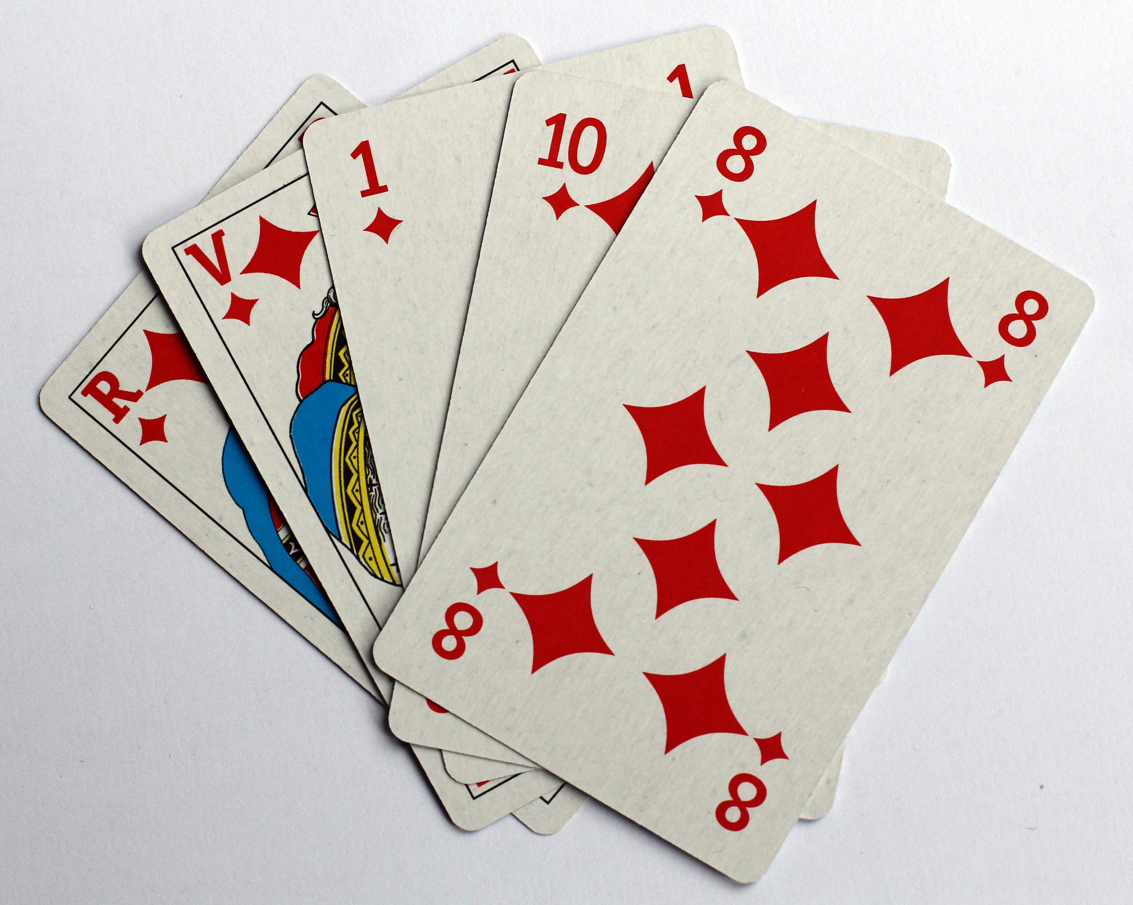 A flush or mouche from the old French card game of Mouche; in this case, a flush of diamonds.